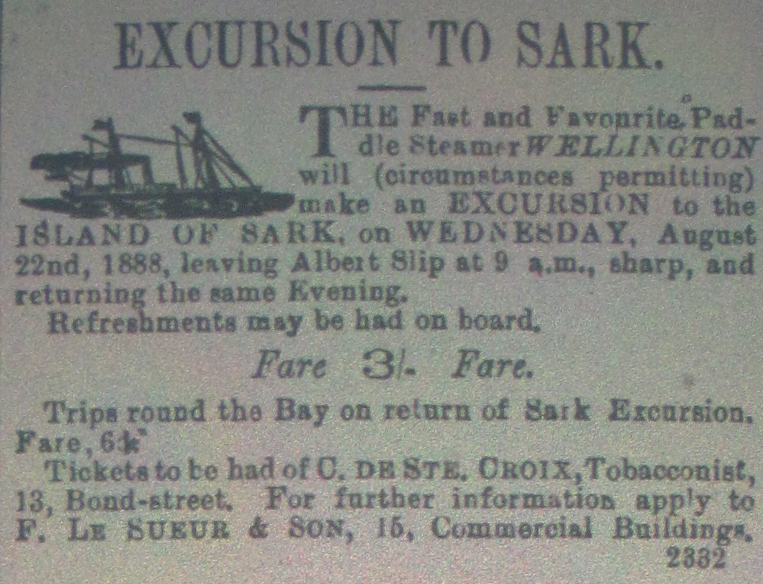 Excursion to Sark. The Fast and Favourite Paddle Steamer Wellington will (circumstances permitting) make an excursion to the Island of Sark, on Wednesday, August 22nd, 1888, leaving Albert Slip at 9 a.m. British Press and Jersey Times